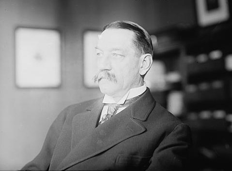 Henry W. Taft